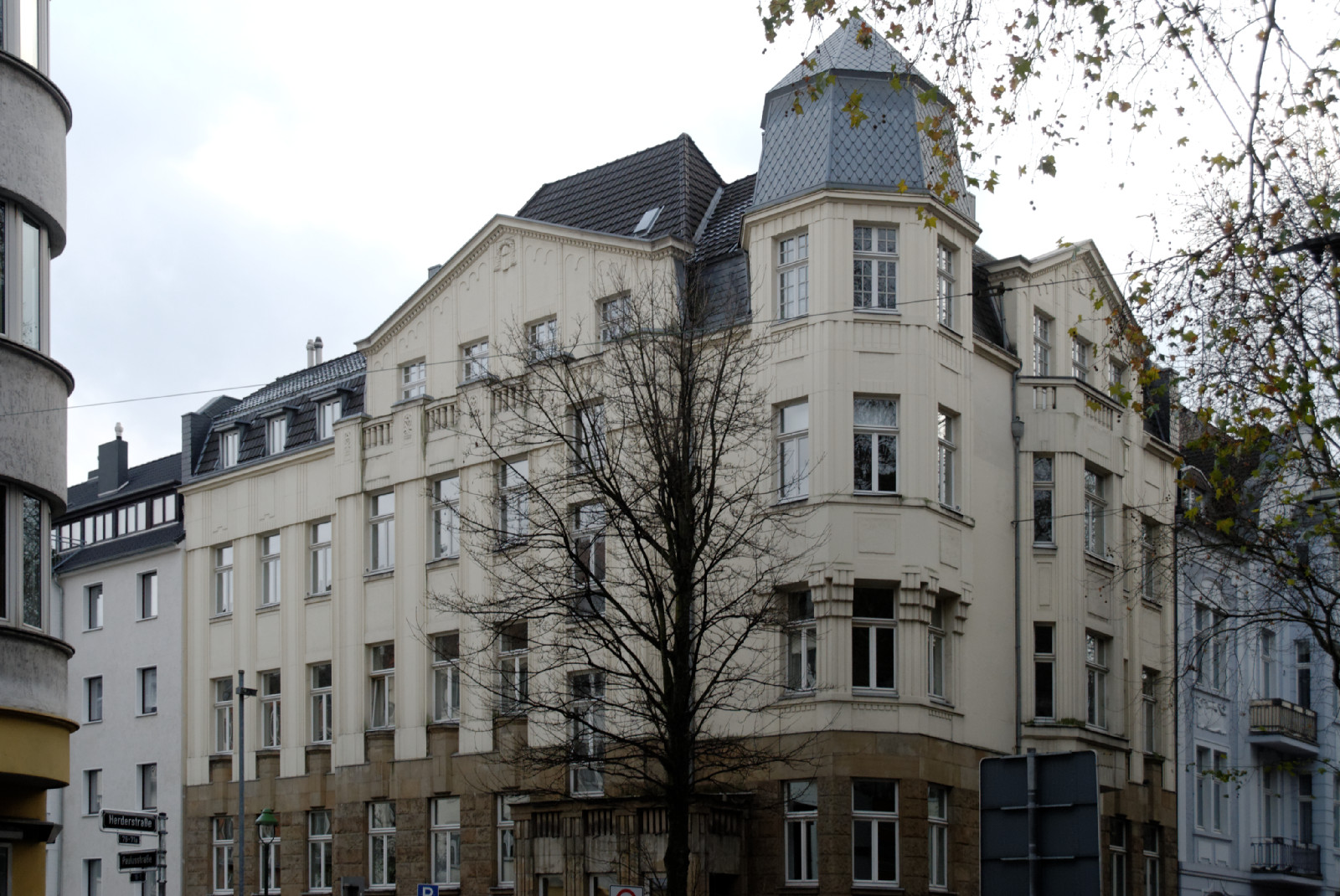 House Paulusstraße 1 in Düsseldorf-Düsseltal, Germany This is a photograph of an architectural monument.